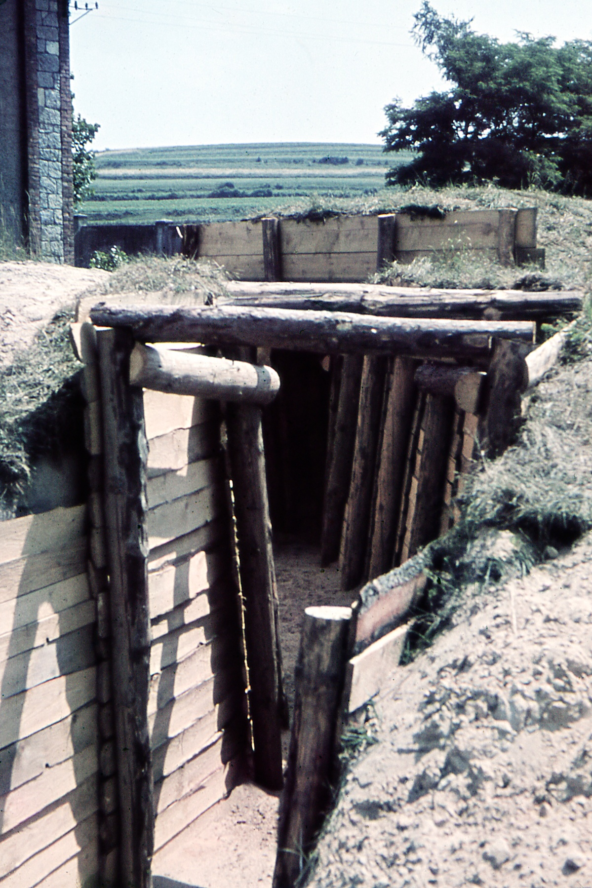 Coal mine "Janina" in Libiąż near Chrzanów in województwo małopolskie closely województwo śląskie borderland, Poland, 20.07.1939 Fire trench.